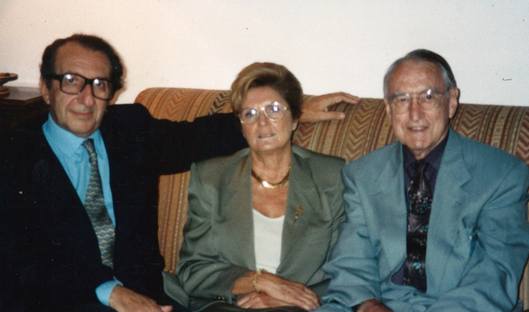 Romano Forleo and his wife with sexologist John Money in Rome